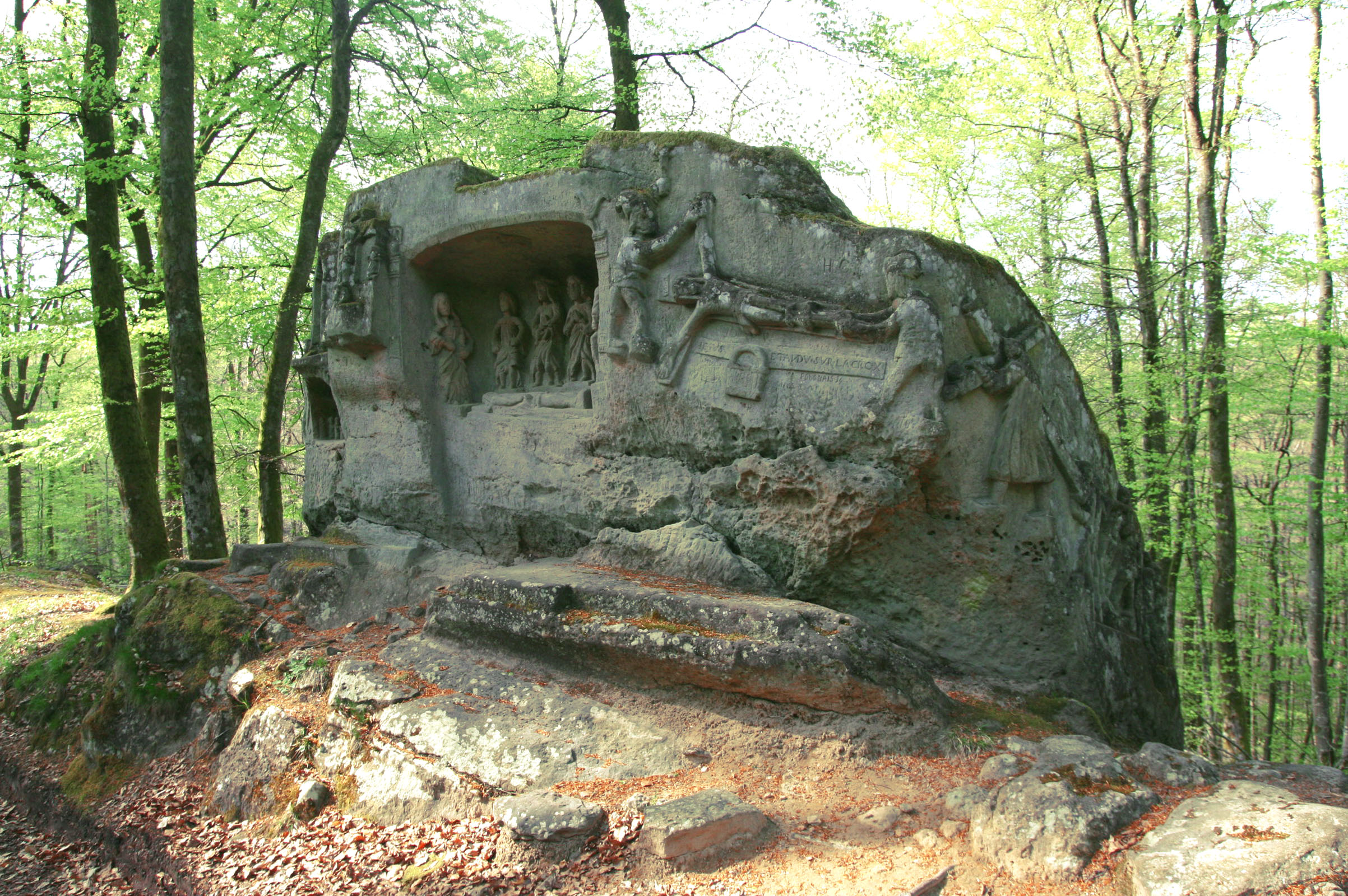 La roche des 12 apôtres